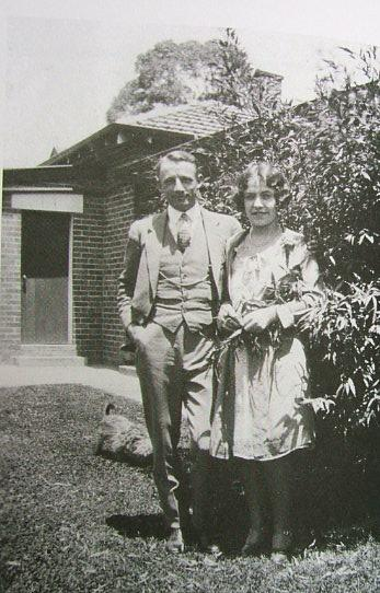 Don Bradman with his wife